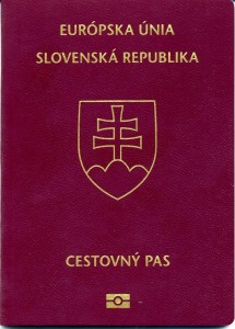 Slovak biometric passport